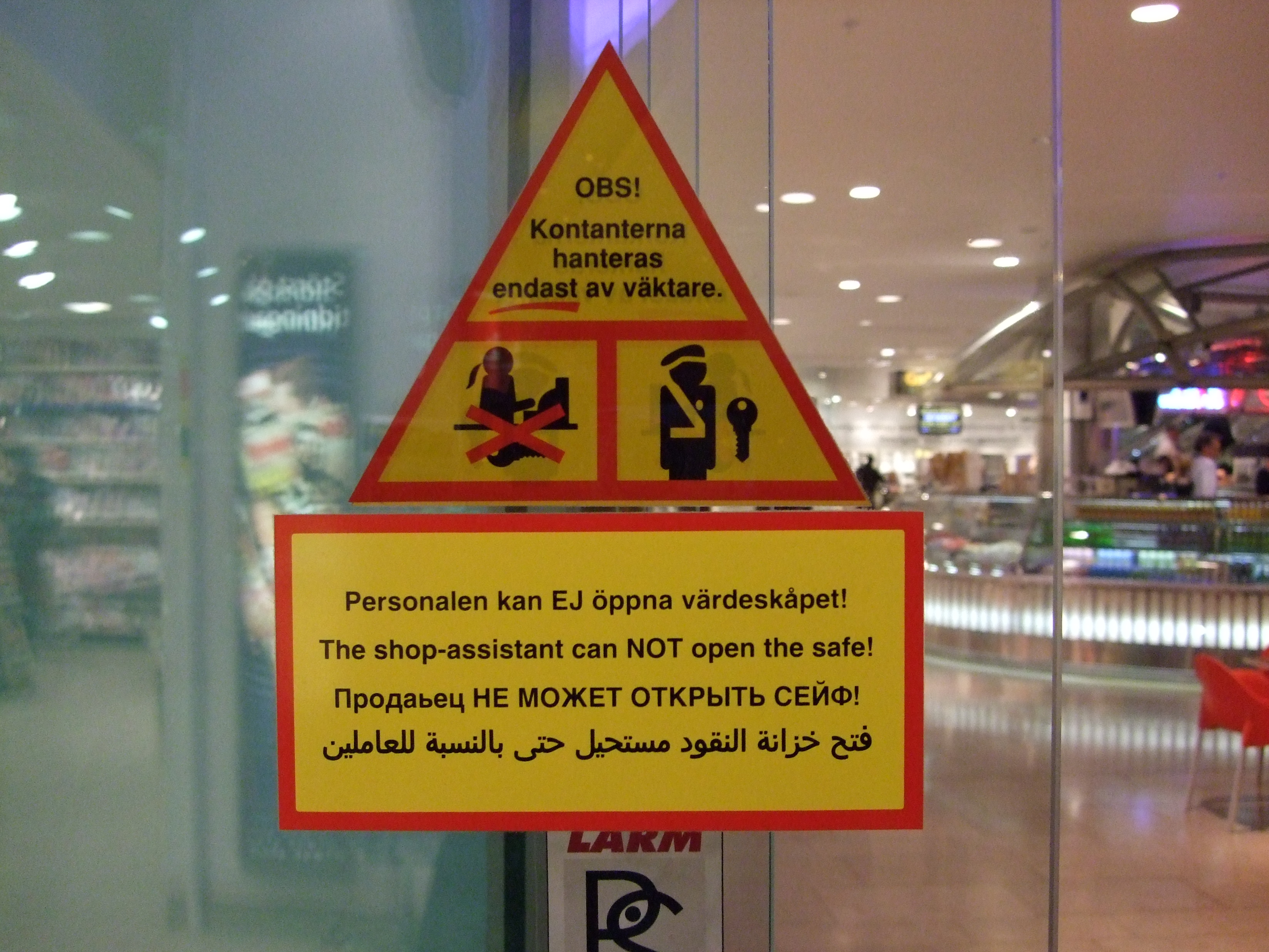 Quadrilingual store sign located on the entrance to a Presstop-store in Gallerian in Stockholm.